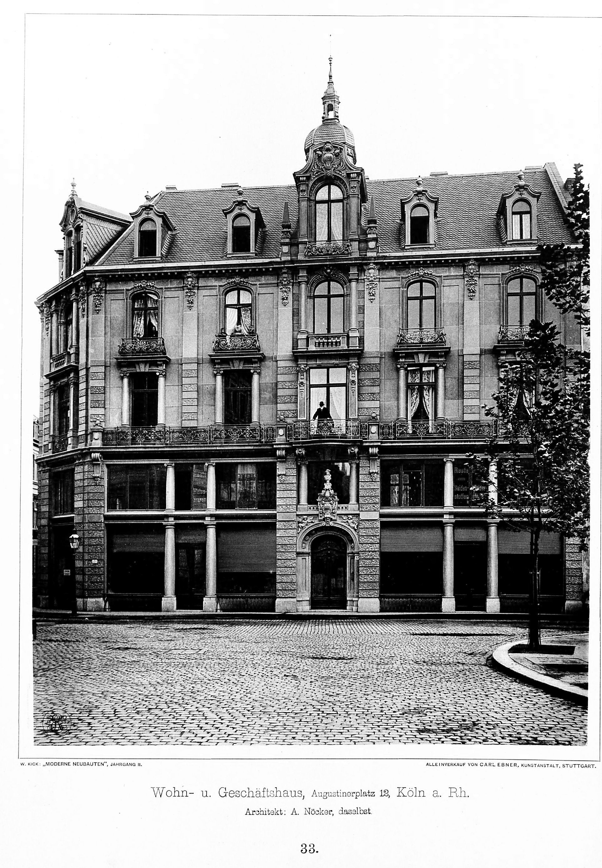 Wohn-_und_Geschäftshaus_Augustinerplatz_12,_Köln,_Architekt_A._Nöcker,_Tafel_33,_Kick_Jahrgang_II.jpg